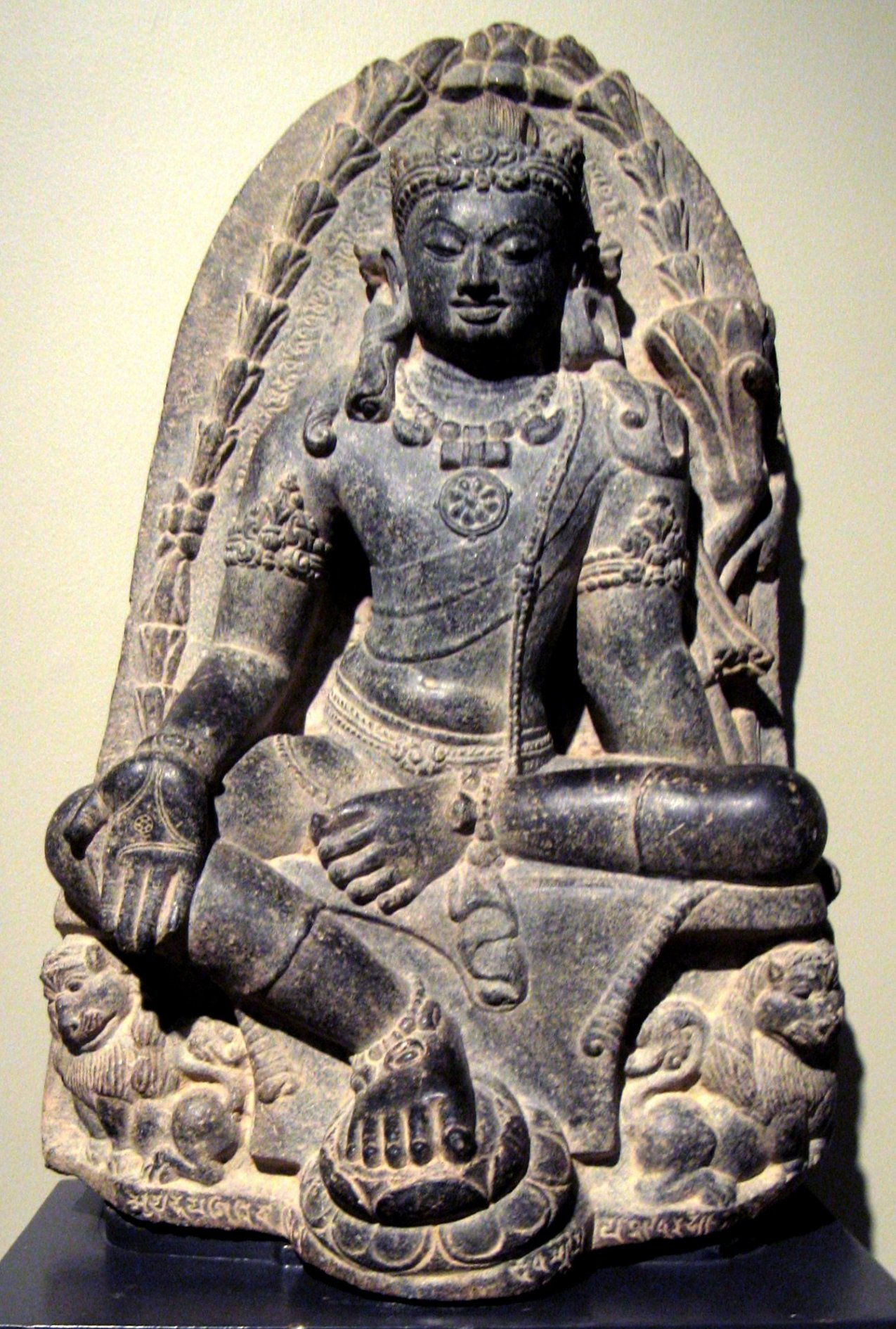 Manjusri Kumara (bodhisattva of wisdom), India, Pala dynesty, 9th century, stone, Honolulu Academy of Arts